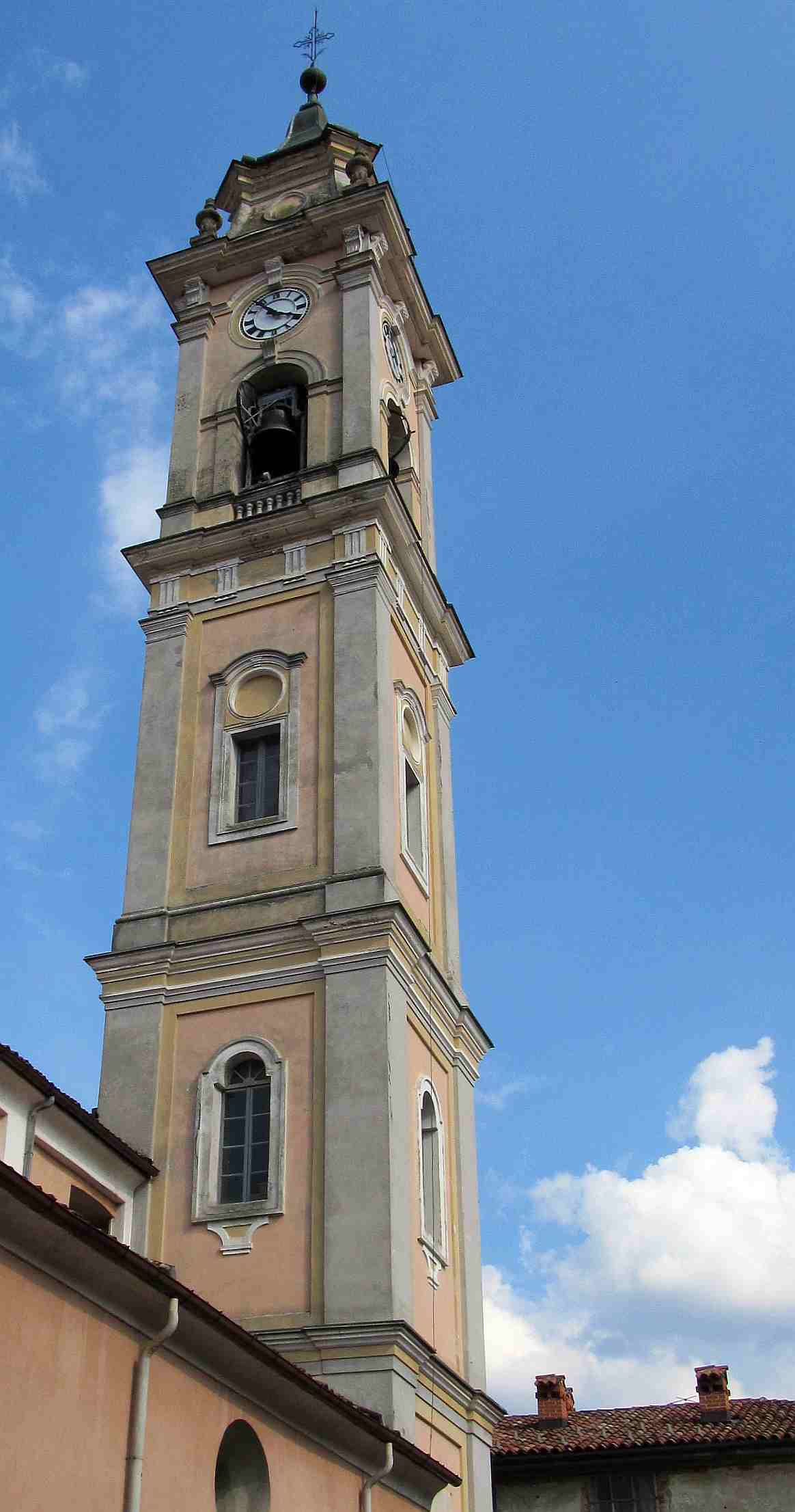 Bagnasco (CN, Italy): bell tower